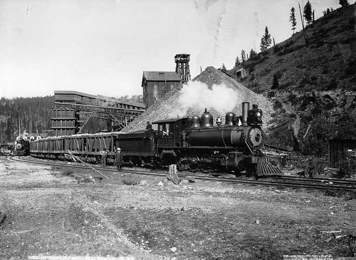 Mother Lode Mine near Greenwood, British Columbia, Canada, 1903